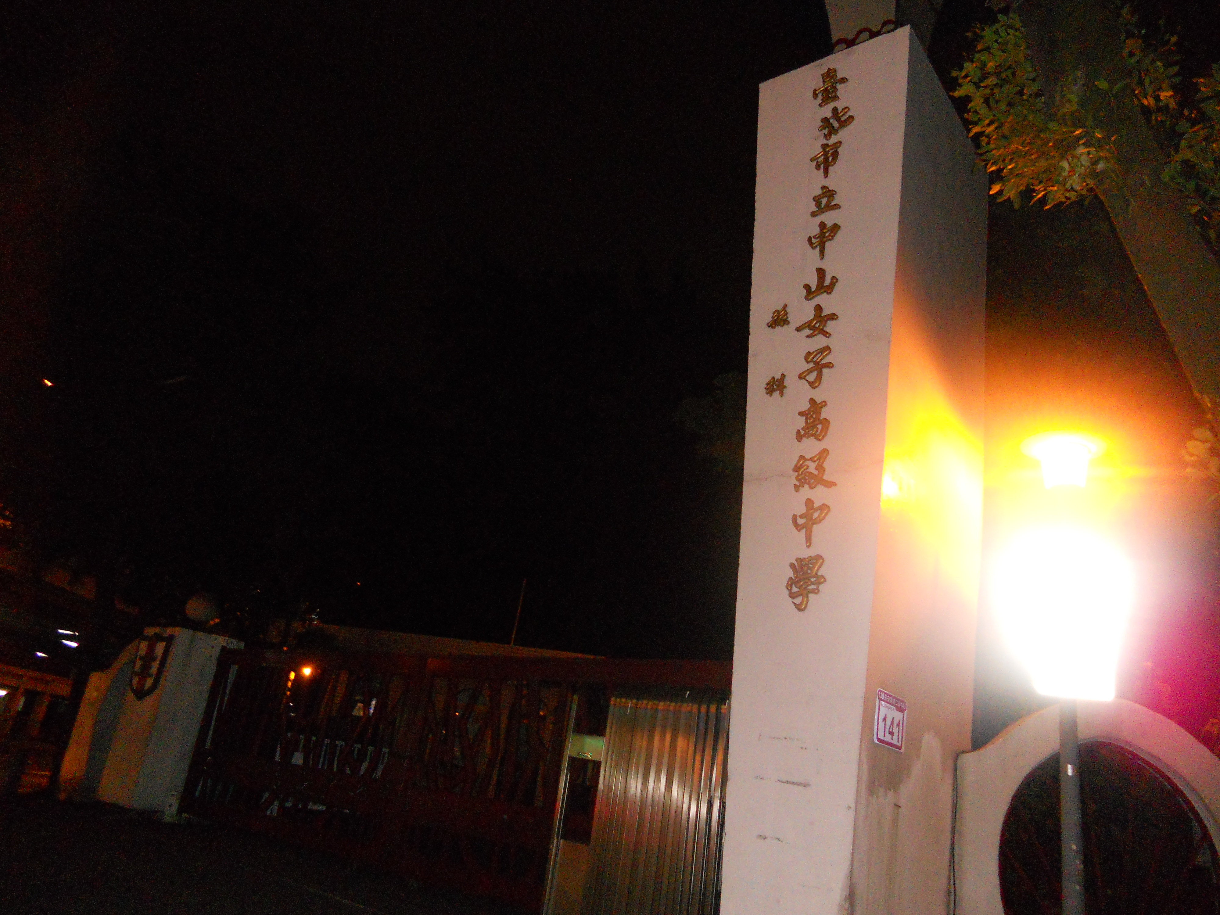 Taipei Municipal Zhongshan Girls High School main gate at night.